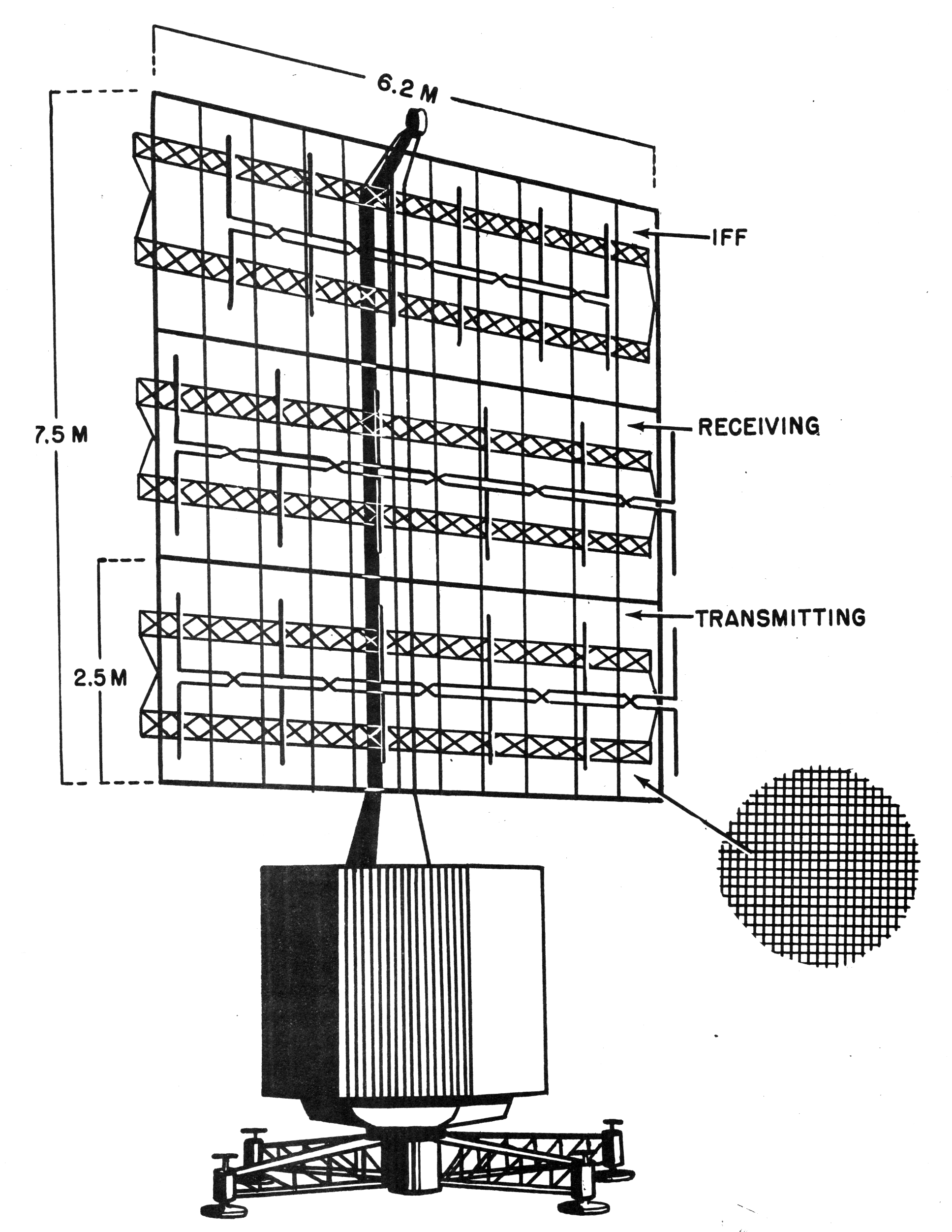 An illustration of a German World War II Pole Freya Radar from TM E 11-219 "Directory of German Radar Equipment".